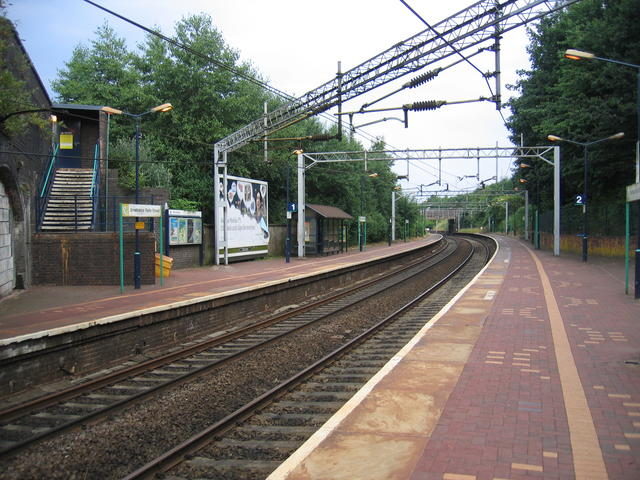 Smethwick Rolfe Street Station